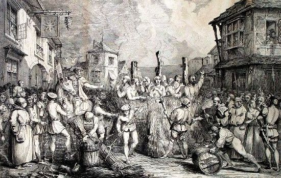 From St Mary's parish church, Warbleton, East Sussex. Picture of the execution of Richard Woodman, said to have been photographed in 2004. The etching may be by James Henry Hurdis